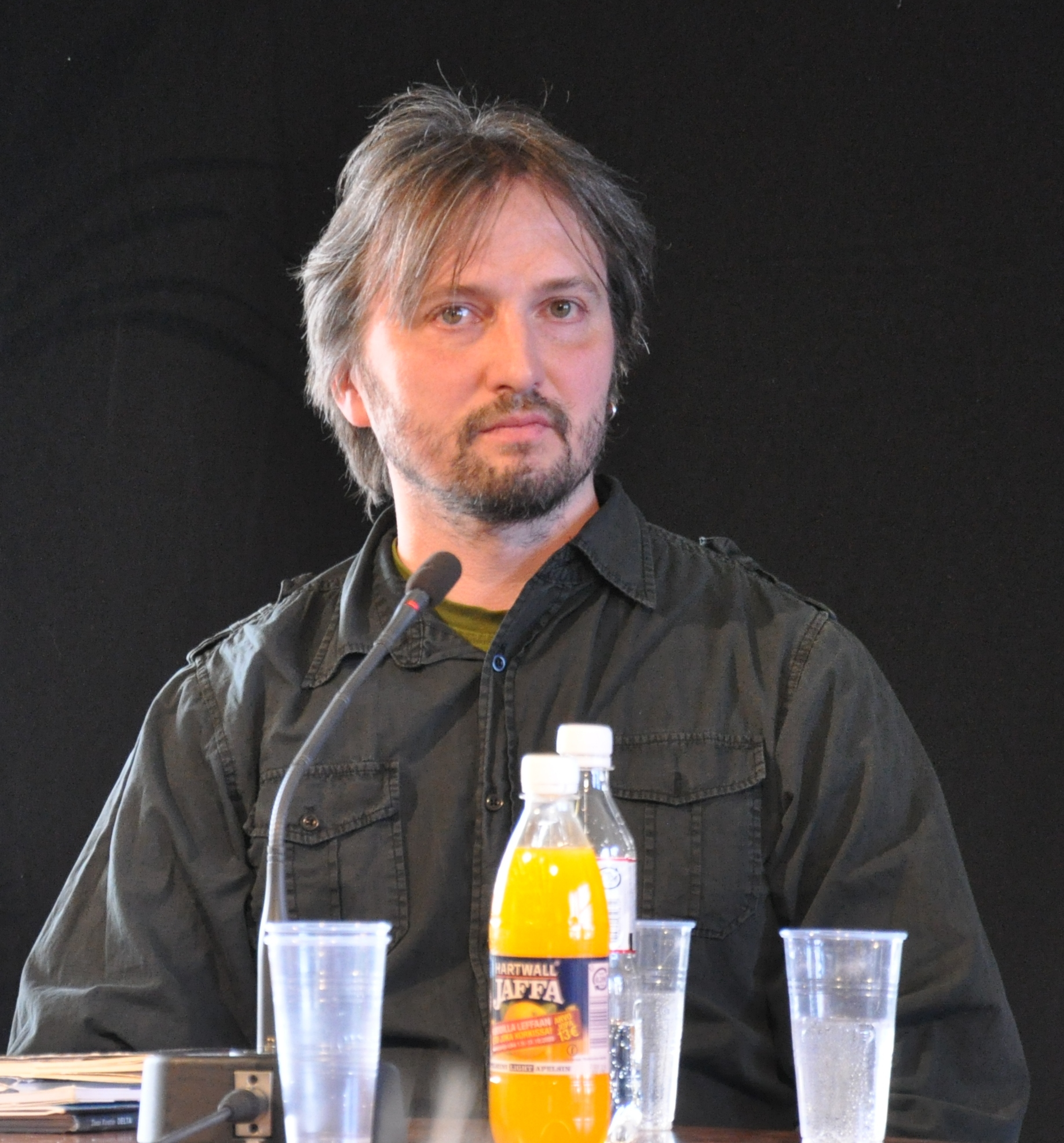 Finnish writer Tomi Kontio at the Turku Book Fair 2009.